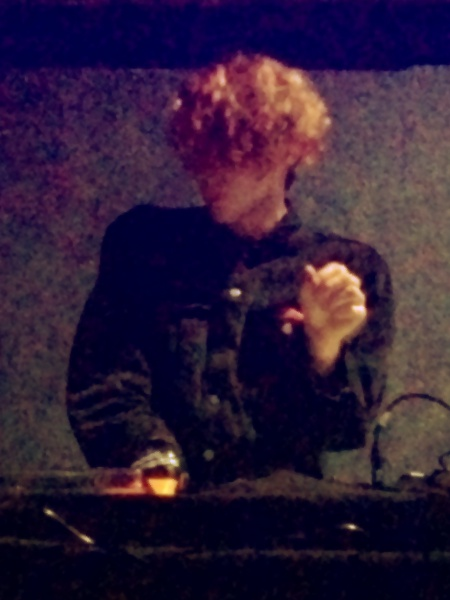 Sophie DJing at 1015 Folsom in San Francisco, California, United States